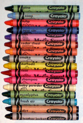 Crayola Magic Scent crayons.